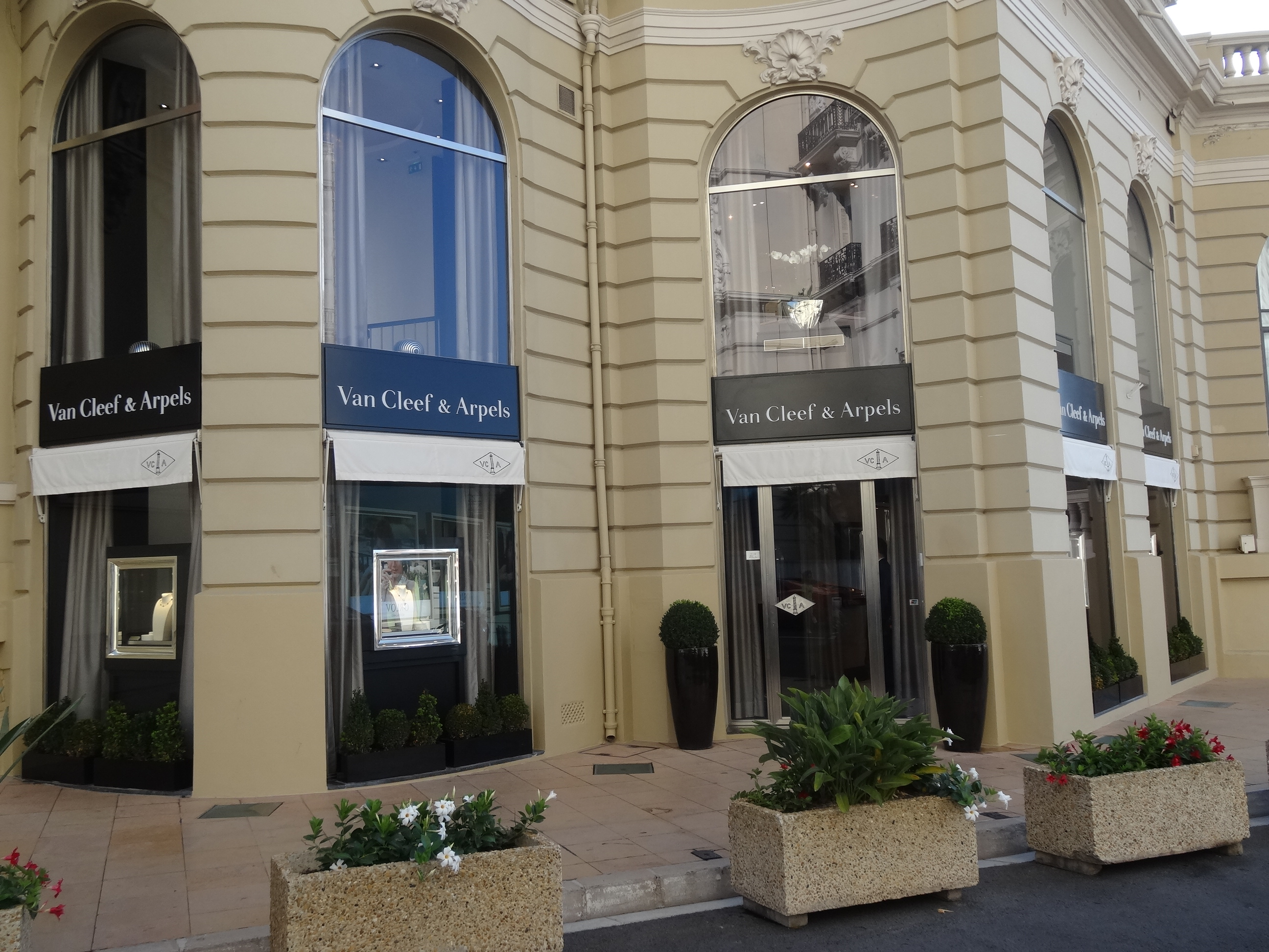 August 2016, Casino de Monte Carlo. West facade. Van Cleef and Arpels boutique